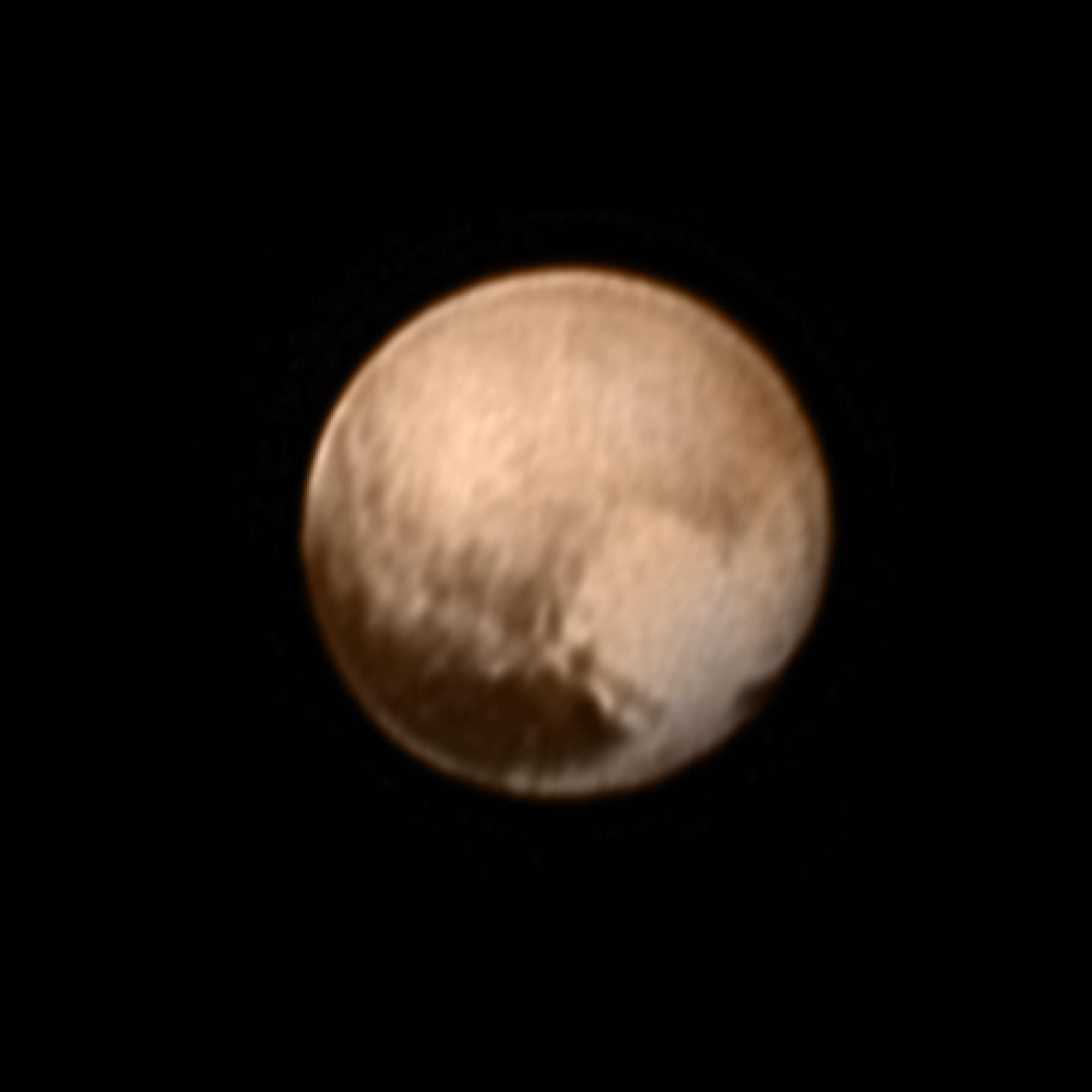 In the early morning hours of 8 July 2015, New Horizons mission scientists received this new view of Pluto -- the most detailed yet returned by the Long Range Reconnaissance Imager (LORRI) aboard New Horizons. The image was taken on 7 July, when the NASA spacecraft was just under 5 million miles (8 million kilometres) from Pluto, and is the first to be received since the 4 July anomaly that sent the spacecraft into safe mode. This view is centered roughly on the area that will be seen close-up during New Horizons' 14 July closest approach. This side of Pluto is dominated by three broad regions of varying brightness. Most prominent are an elongated dark feature at the equator, informally known as "the whale," and a large heart-shaped bright area measuring some 1,200 miles (2,000 kilometres) across on the right. Above those features is a polar region that is intermediate in brightness.